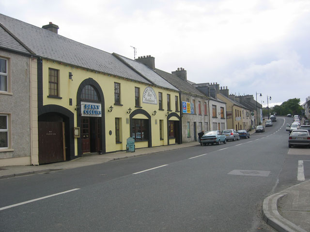 Dunfanaghy, co Donegal. N56 as it passes through the town, looking approx west.